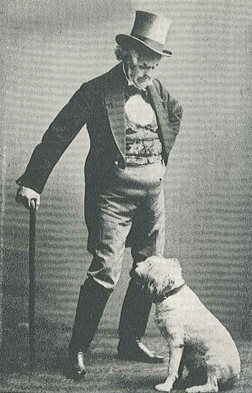 Hjalmar Selander (1859-1928), Swedish actor, director and theatre manager. Seen here dressed for a part in the play Gamla goda tiden circa 1908-09.